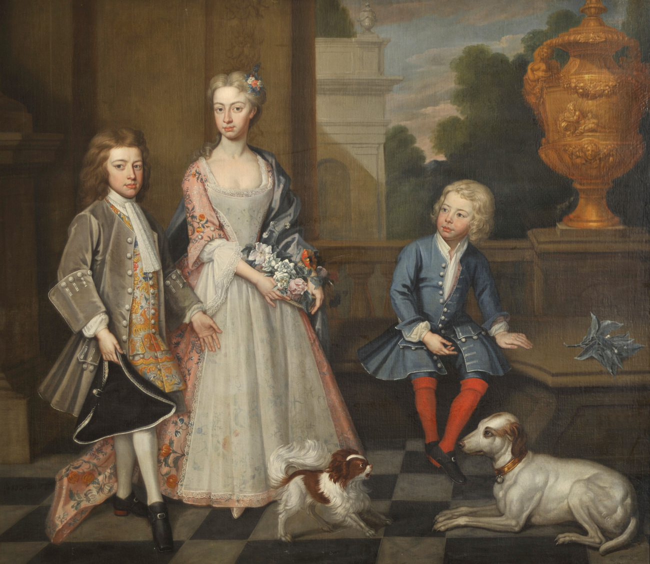 portrait of the Ambler children: Humphry Ambler (d. 1752), Elizabeth (Biscoe) (d. 1766) and Charles Ambler (1721-1794). Children of Ann née Bream and Humphry Ambler (barrister) of Stubbings Park Maidenhead Berkshire